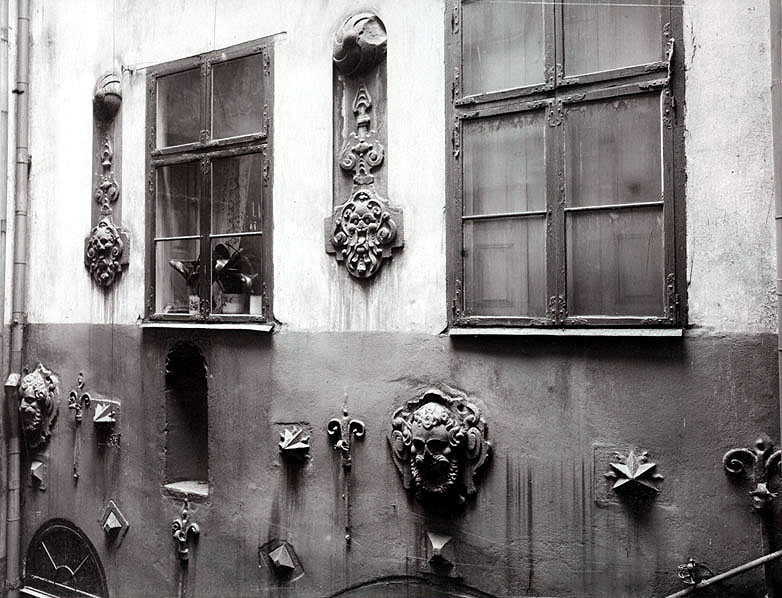 17th century ornaments on the court-side facade of Beijerska huset in Stockholm.